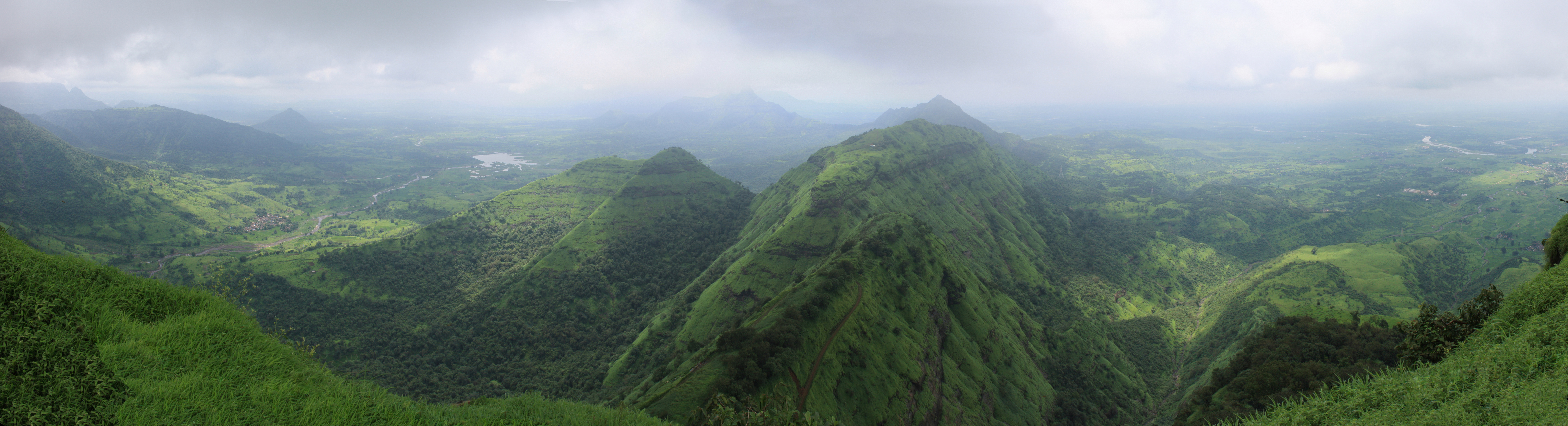 Panoramic View during rain season from the Panorama Point on the Matheran Hill. On the ridge in front you can see the railroad track wriggling around.